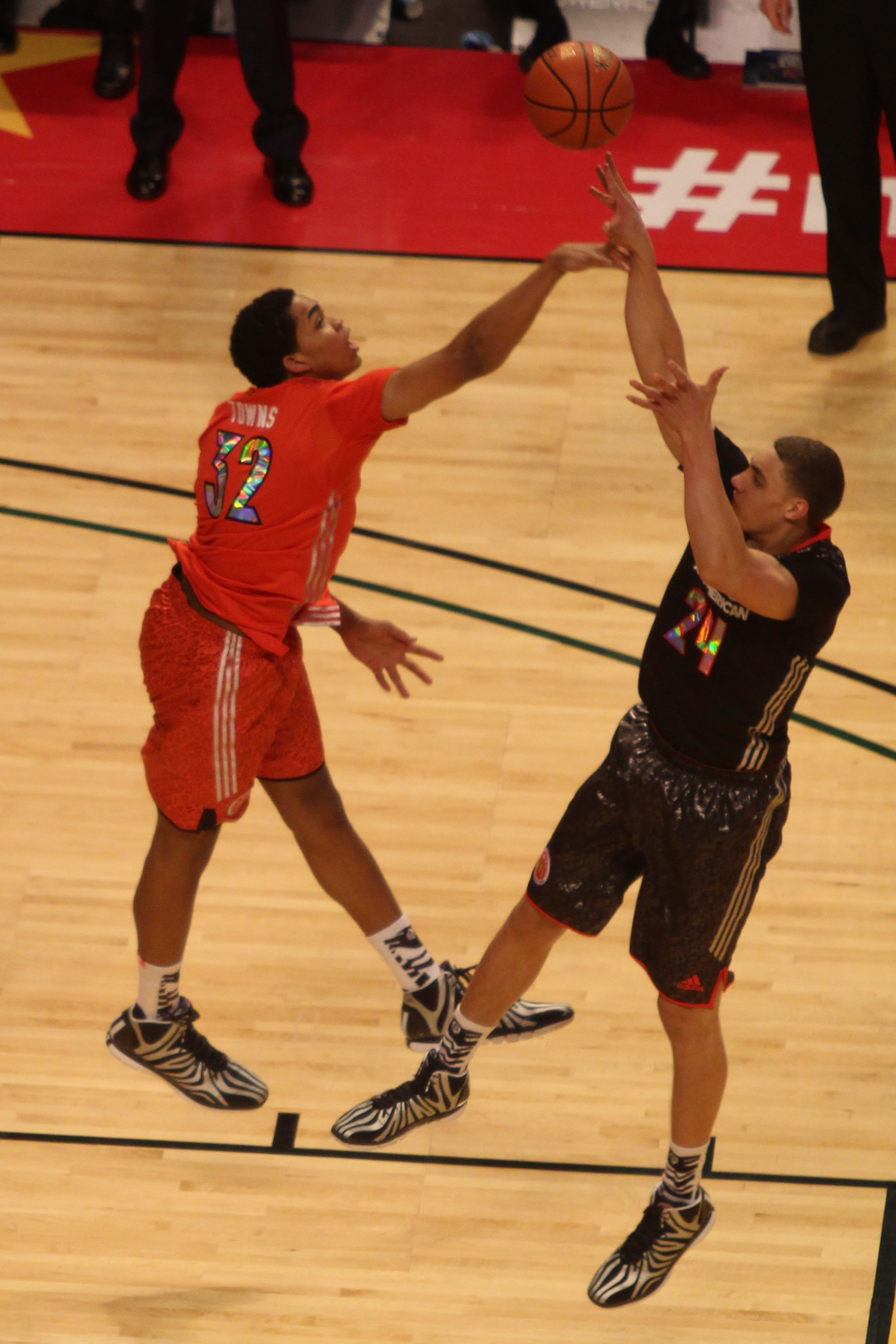 Reid Travis shoots a jump shot over Karl Towns in the w:2014 McDonald's All-American Boys Game.